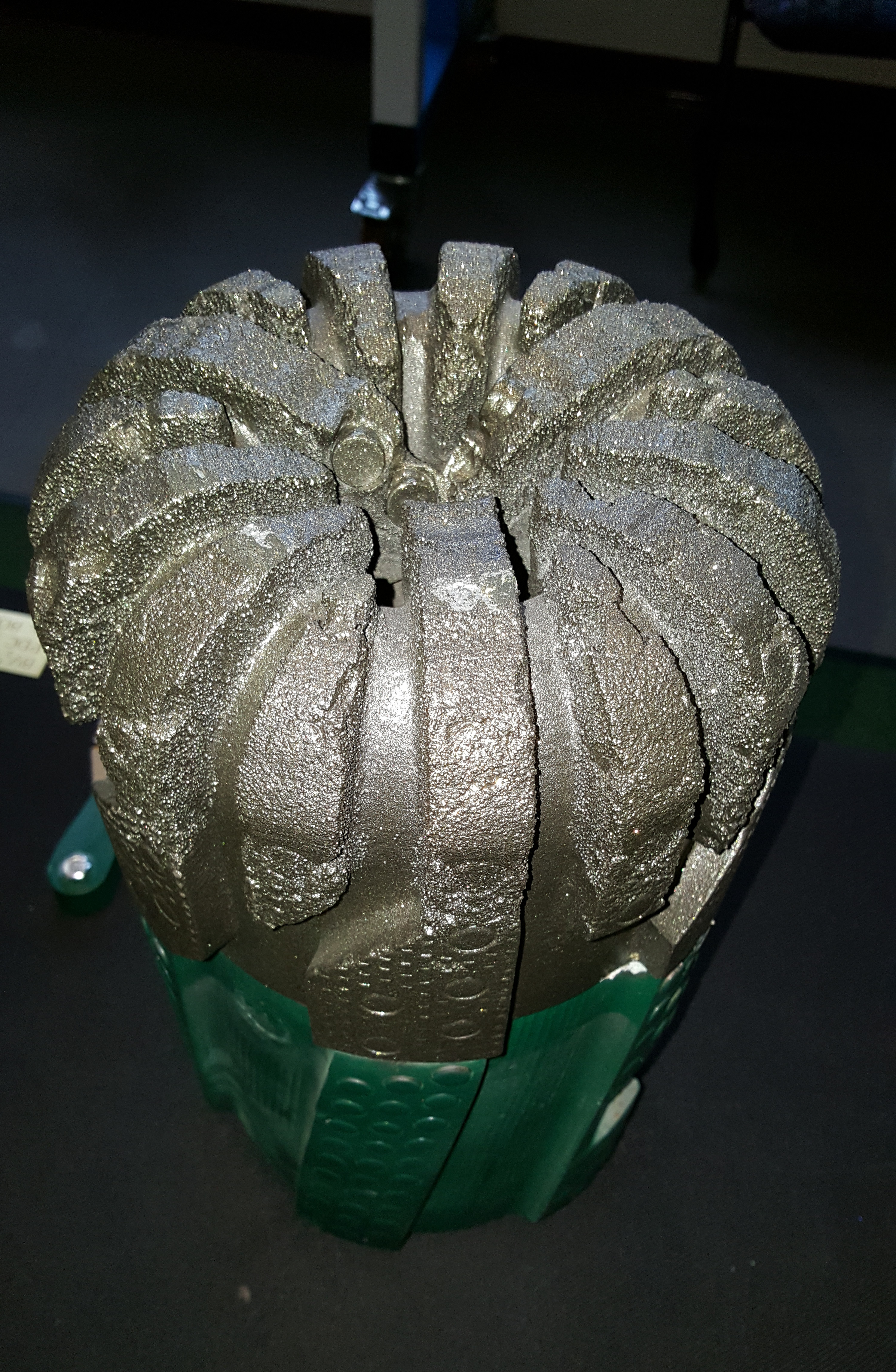 Diamond Impregnated Bit